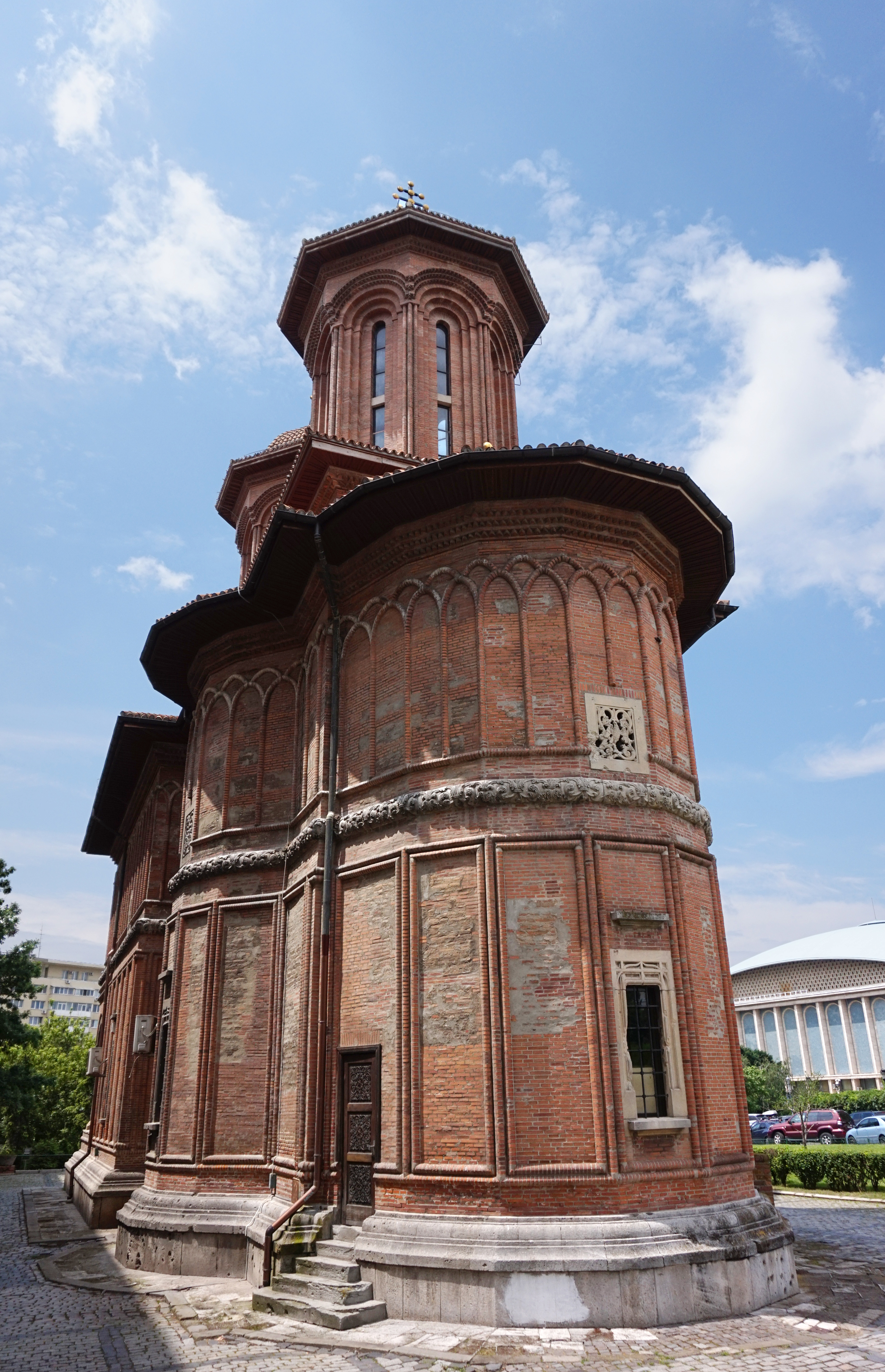 Kretzulescu Church in Bucharest. This photograph was taken with a Sony Alpha a5000.